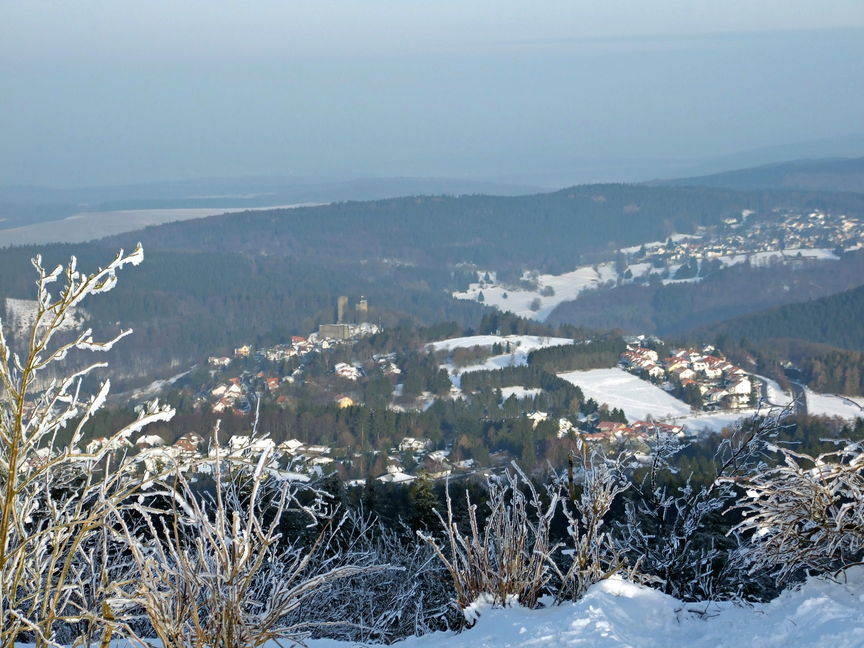 View from "Grosser Feldberg", plateau at winter 2008/9 to "Oberreifenberg" and "Arnoldshain", Taunus, Germany